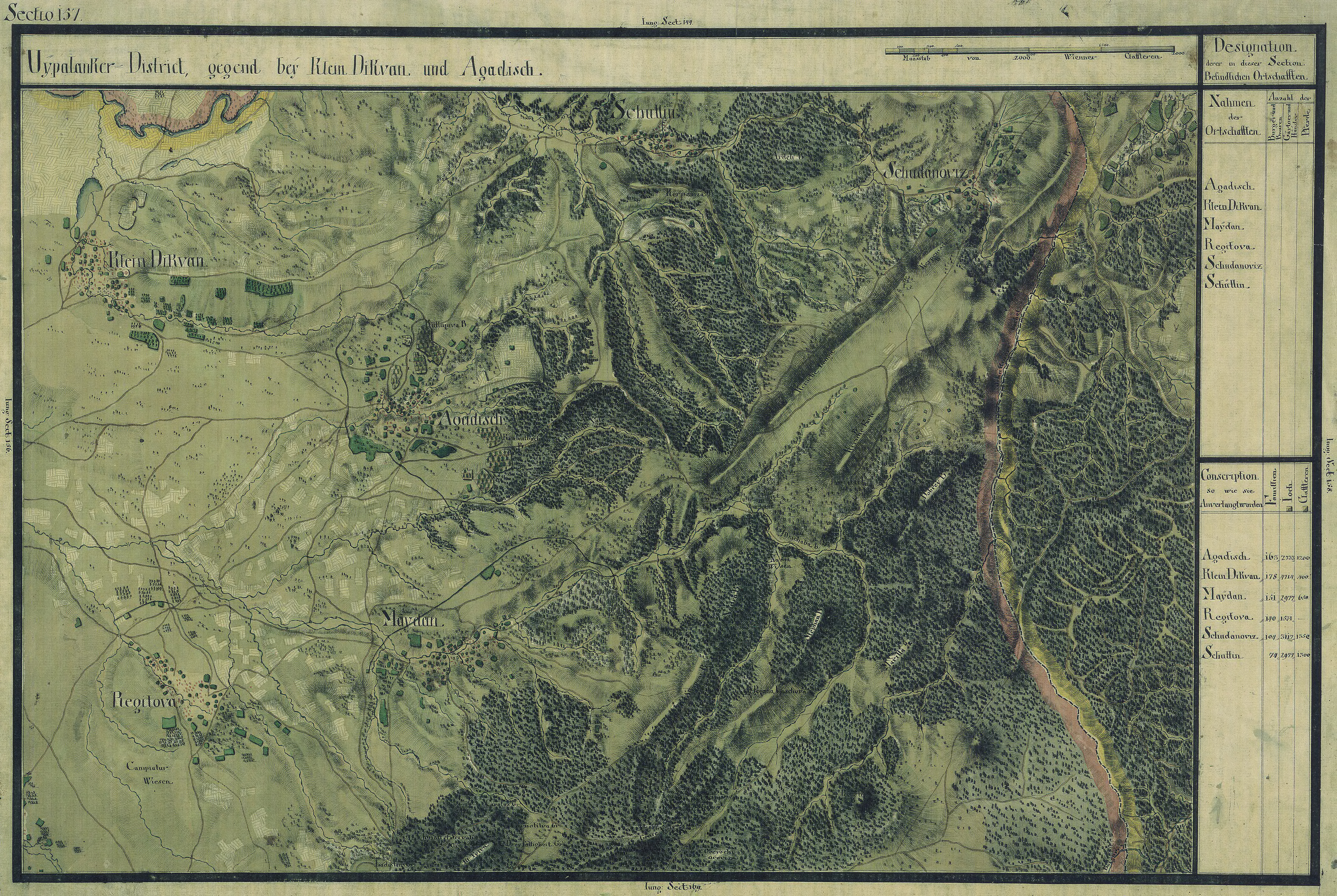 The Banat region in the cadastral maps: Josephinische Landesaufnahme, 1769-72. Josephinische Landaufnahme pg157